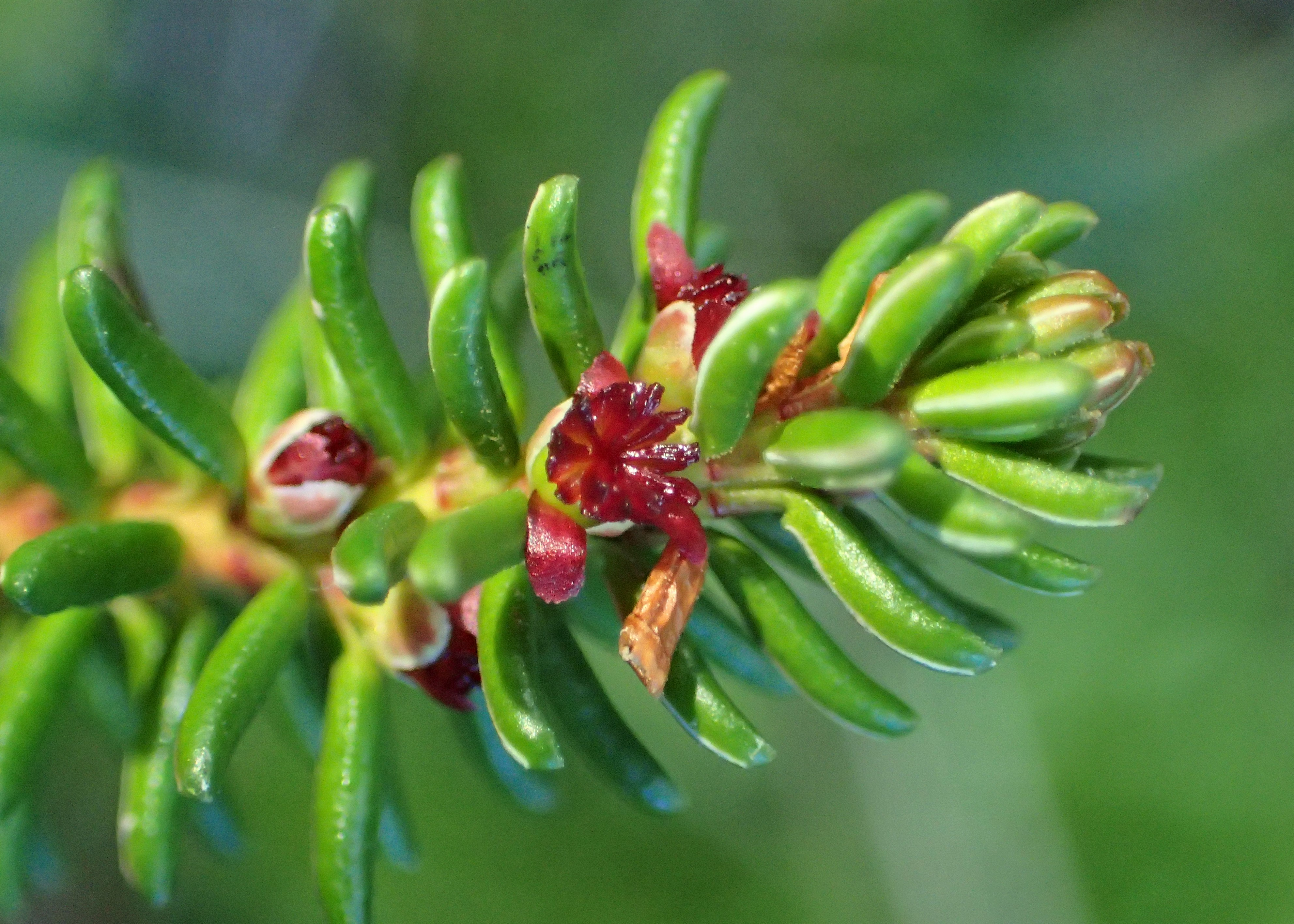 Empetrum nigrum (female flower). Pine forest on Baltic coast in Mrzeżyno, NW Poland